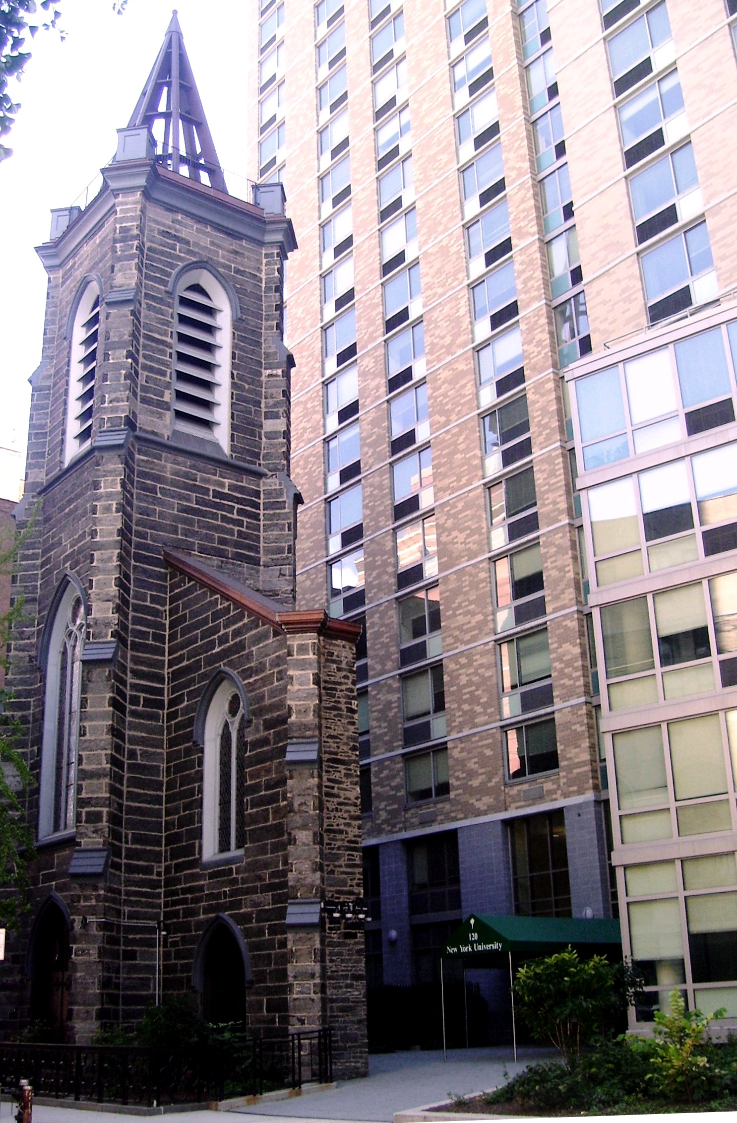 The facade of St. Ann's Church stands in front of New York University's 26-story Founders Hall dormitory at 120 East 12th Street in Manhattan, New York City. The church building was constructed in 1847 as the Twelfth Street Baptist Church, then was bought by Congregation Emanu-El, which later moved to a new sanctuary on Fifth Avenue. Napoleon LeBrun designed a new interior, and in 1871 St. Ann's Roman Catholic Church was dedicated. In 1983, this became St. Ann's Armenian Catholic Cathedral, until everything except the front facade was torn down for the dormitory, which opened in 2006. (Sources: From Abyssinian to Zion (2004) and NYC GIS map)